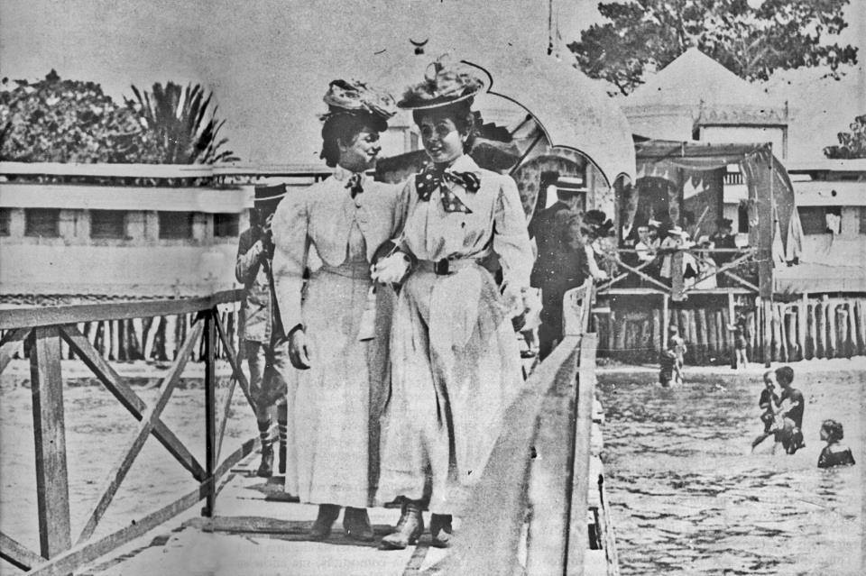 People of Cagliari: Belle Époque girls at the seaside